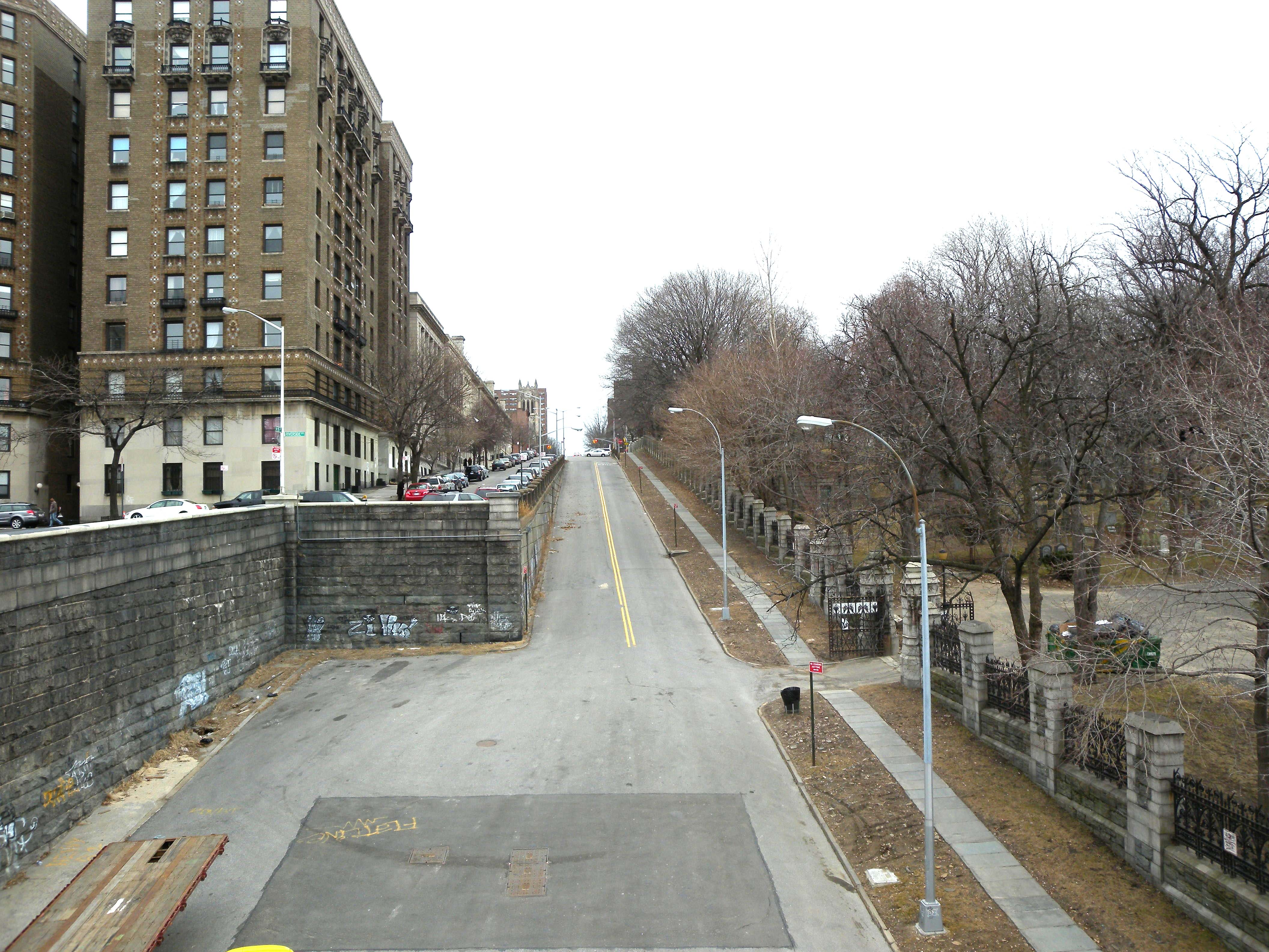 Looking east at the west end of 155th Street (Manhattan) along the north end of Trinity Cemetery on a cloudy midday.